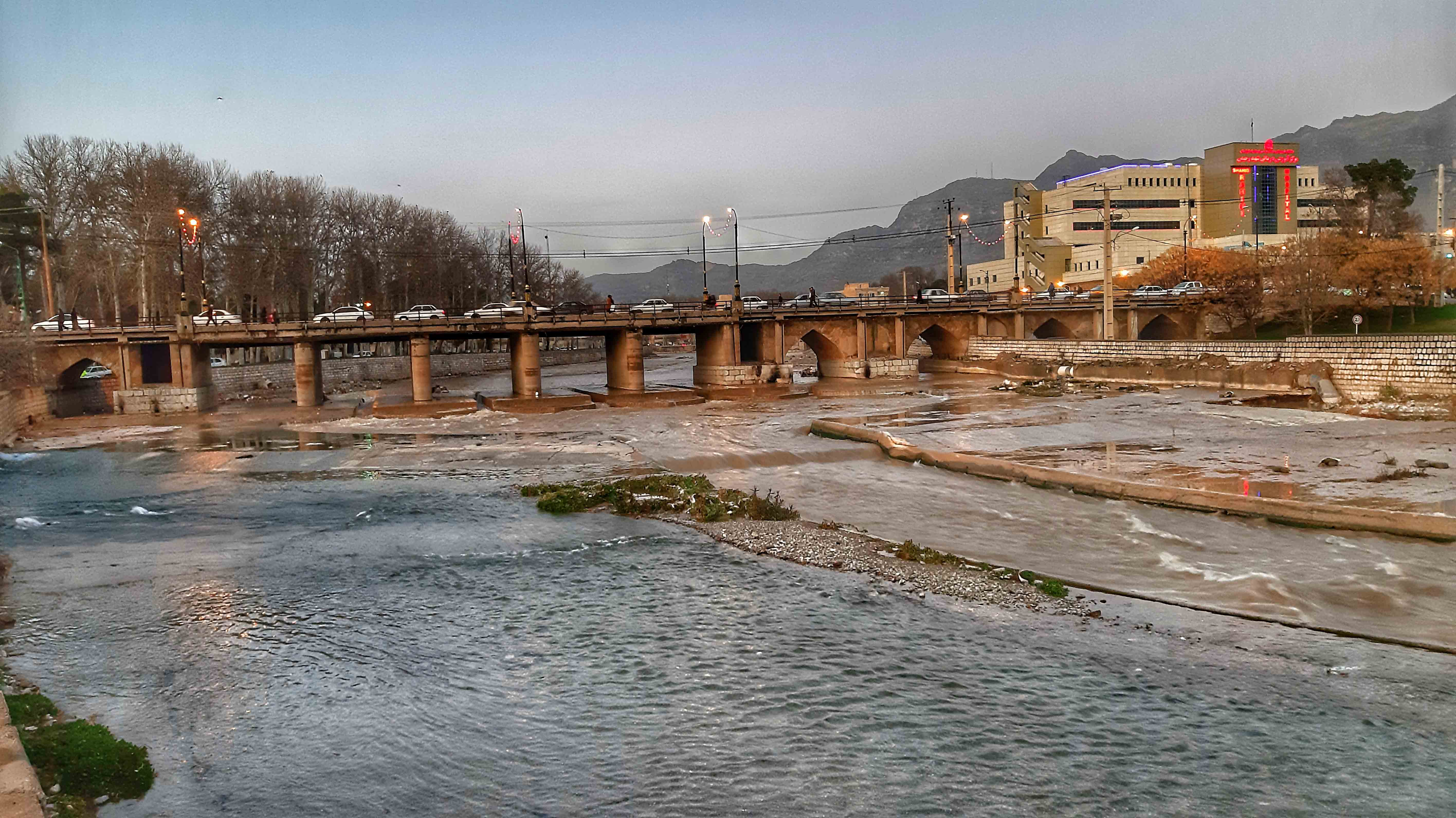 Pole Gap KhorramAbad Northern view